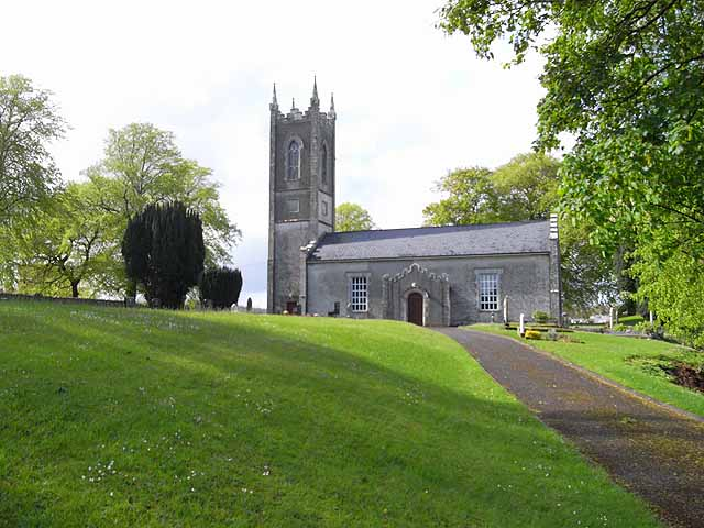 Church of Ireland, Carrigallen, near to Carraig Alainn and Mullanadarragh, Leitrim, Ireland. On the west side of town.